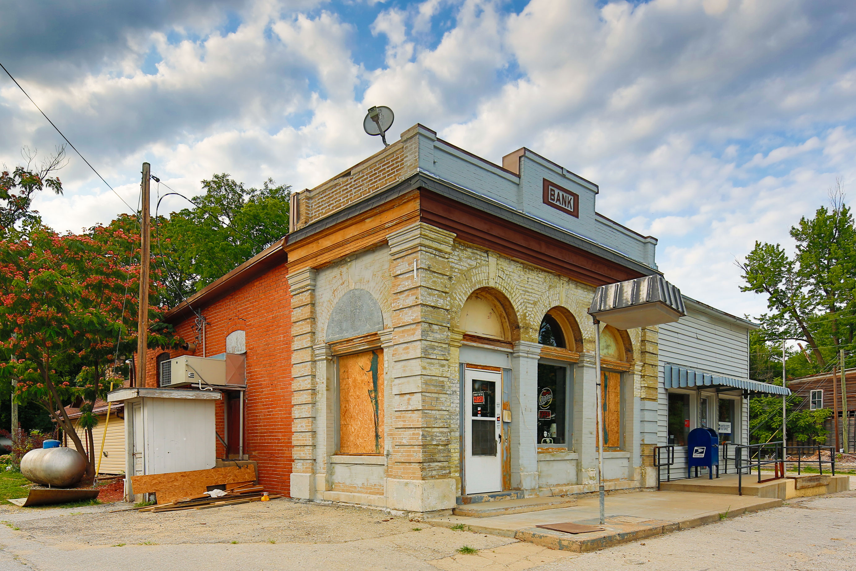 Tebbetts Missouri Bank Spring 2012 at Sunset Taken by ThePhotoRun's Jason Runyon